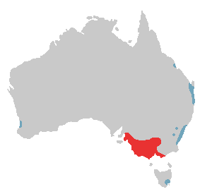 Summary Distribution map of the Long-billed Corella (Cacatua tenuirostris) Based on Image:BlankMap Australia.png Kiwifruitboi 10:11, 10 January 2006 (UTC)